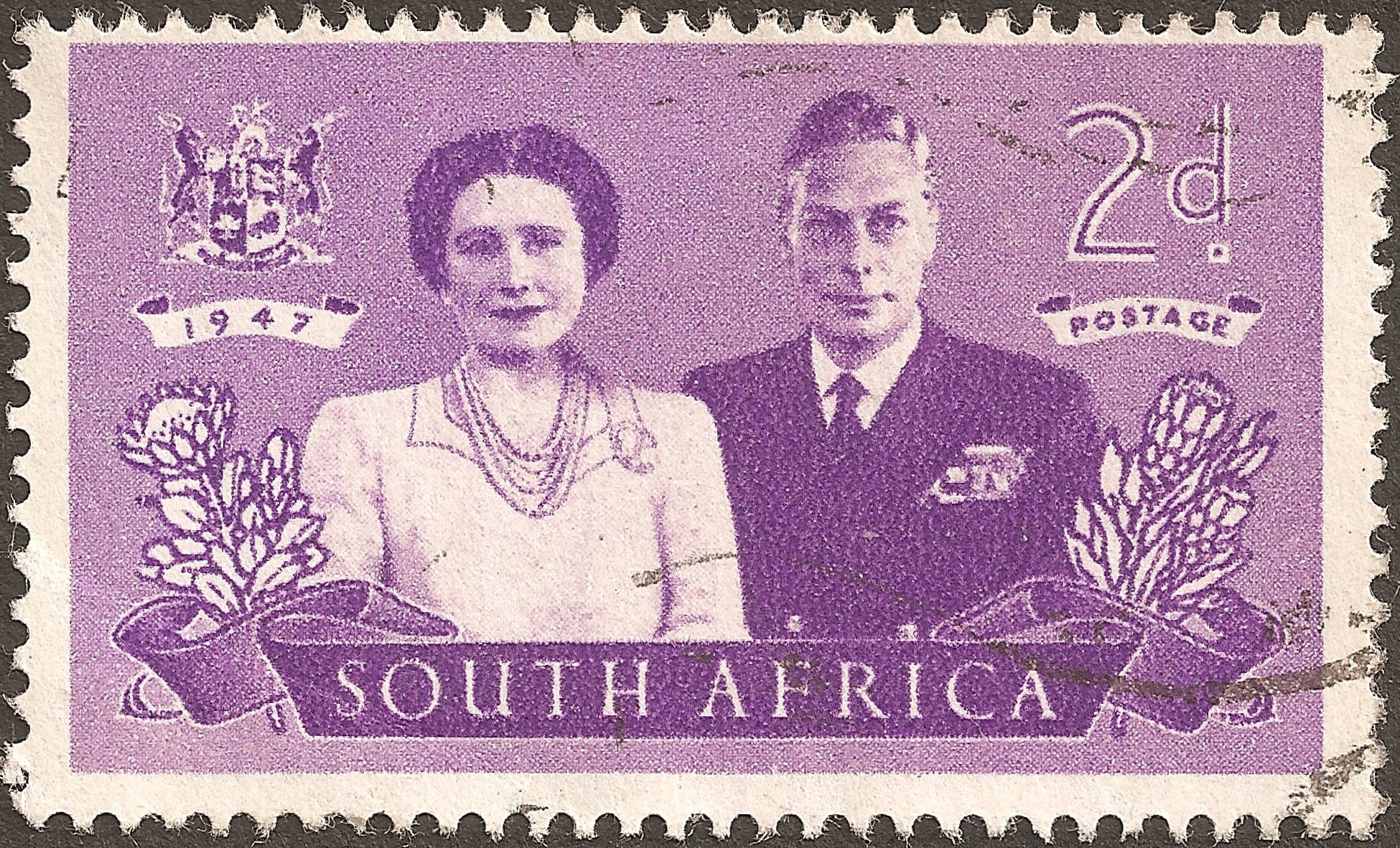 Stamp of South Africa, 1947, and figuring King George VI and his wife. It commemorated the visit of the British Royal family in Africa, alongside two others stamps, including this one.